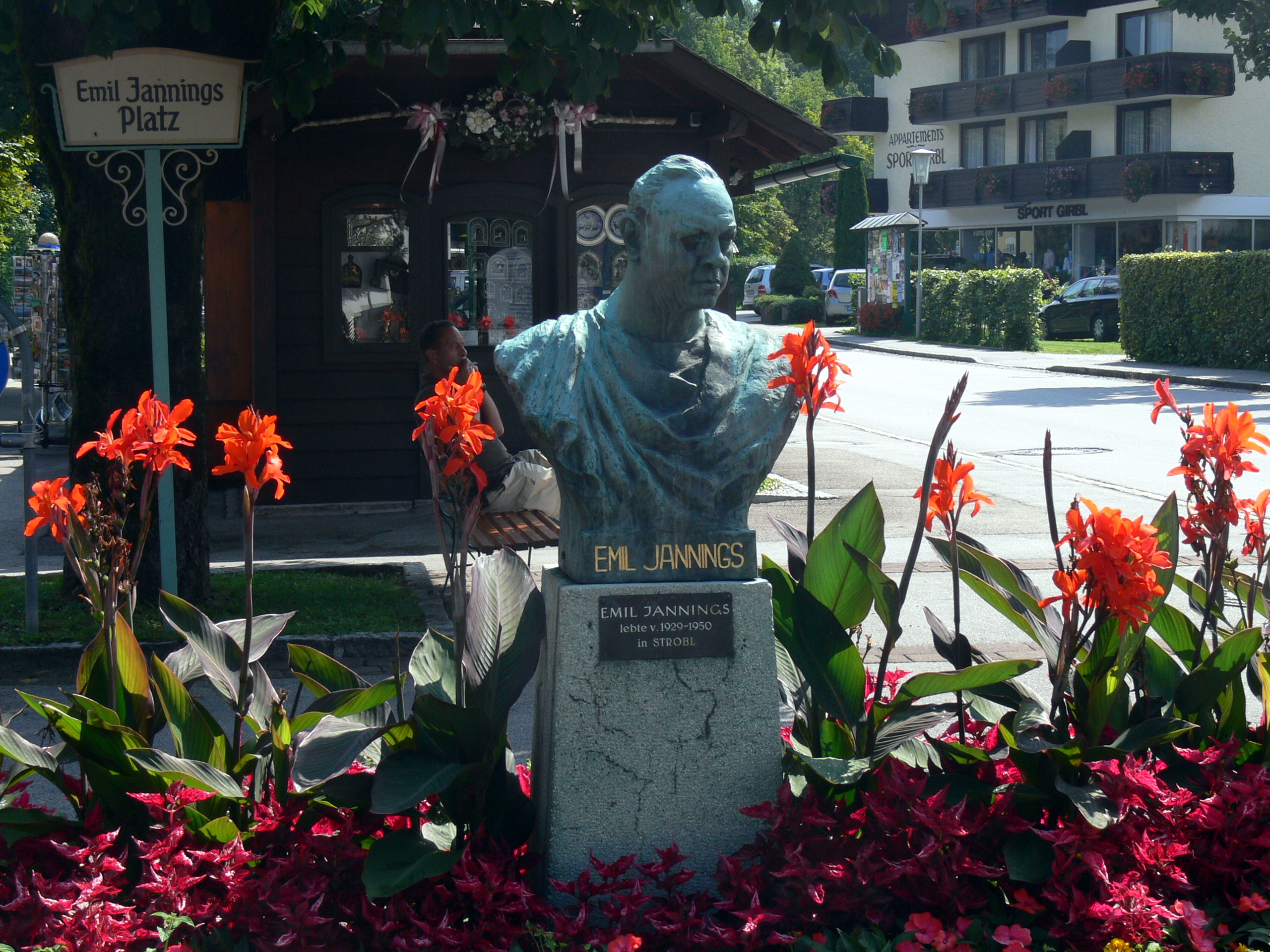 Strobl, Salzburg ( Austria ). Monument for the German actor Emil Jannings who died in Strobl in 1950.